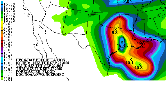 Precipitation accumulations forecast during the next 5 on Septembre 22, 2005, for Hurricane Rita.